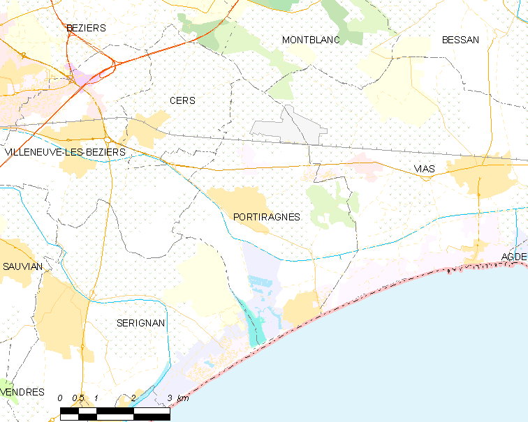 Map commune FR insee code 34209.png - Portiragnes